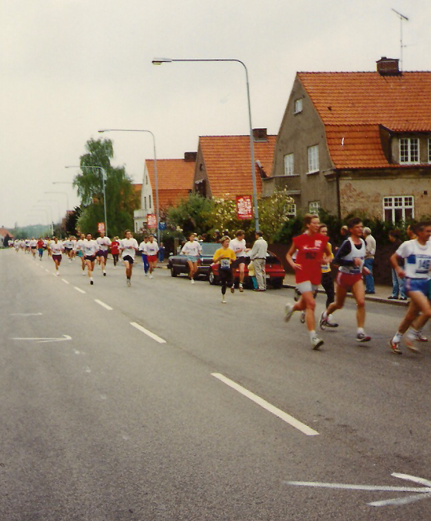 The running event Springtime in Helsingborg on the 20th of May 1991.